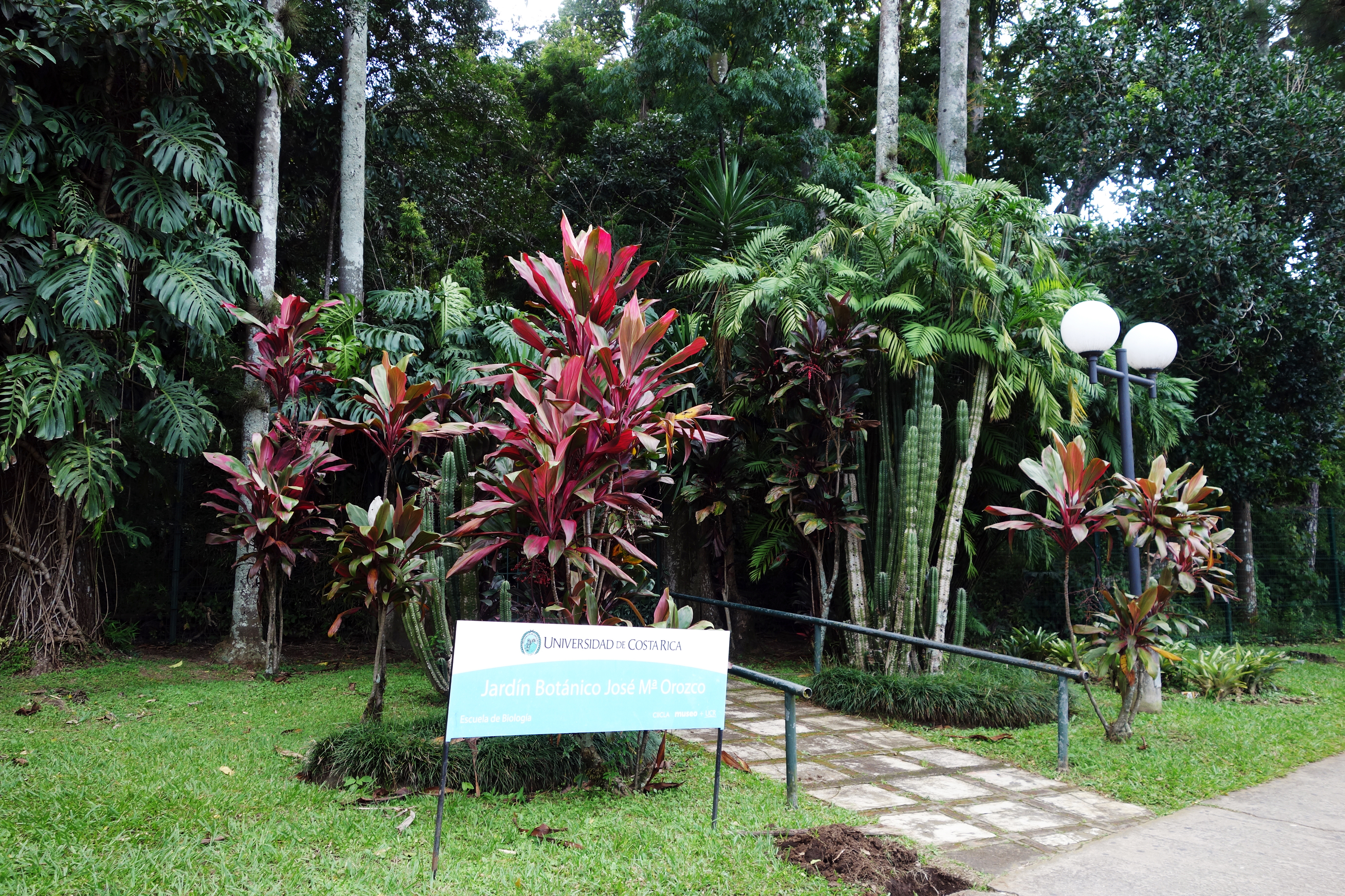 José María Orozco Botanic Garden in Ciudad Universitaria Rodrigo Facio, San Pedro, Costa Rica